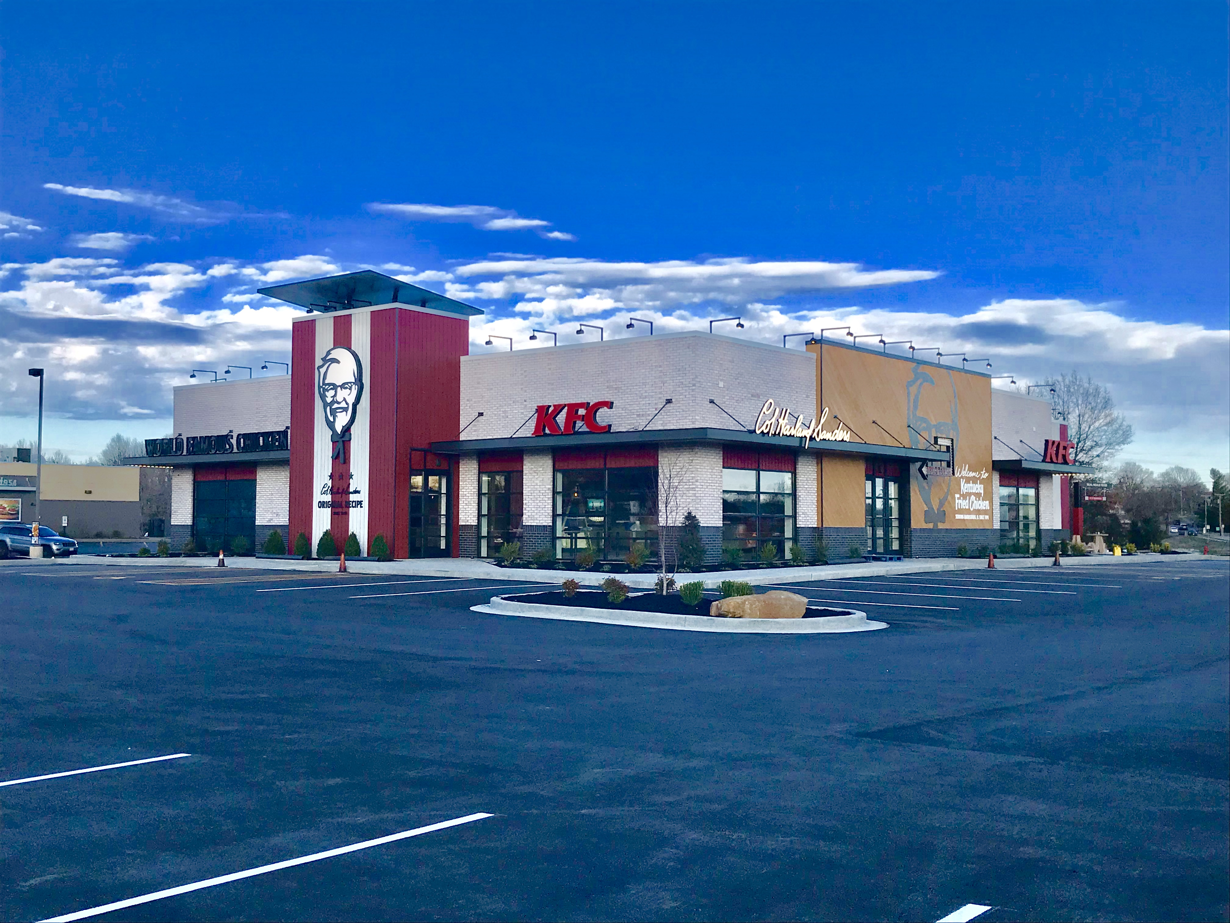 The old restaurant was tore down to make room for this brand new, grand KFC!